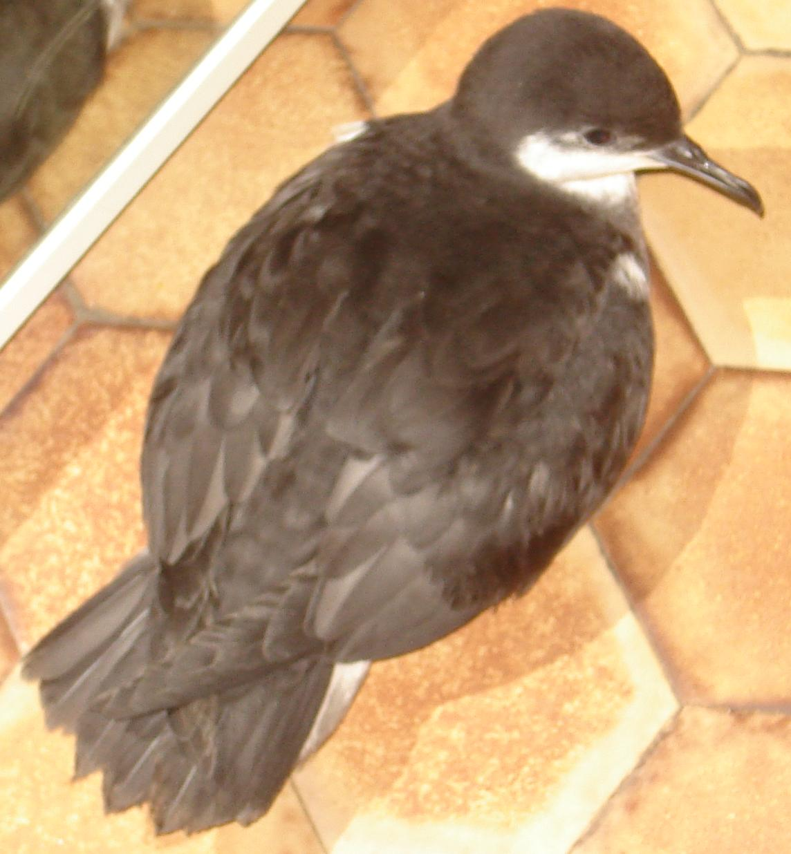 Audubon's Shearwater Puffinus lherminieri bailloni of reunion island